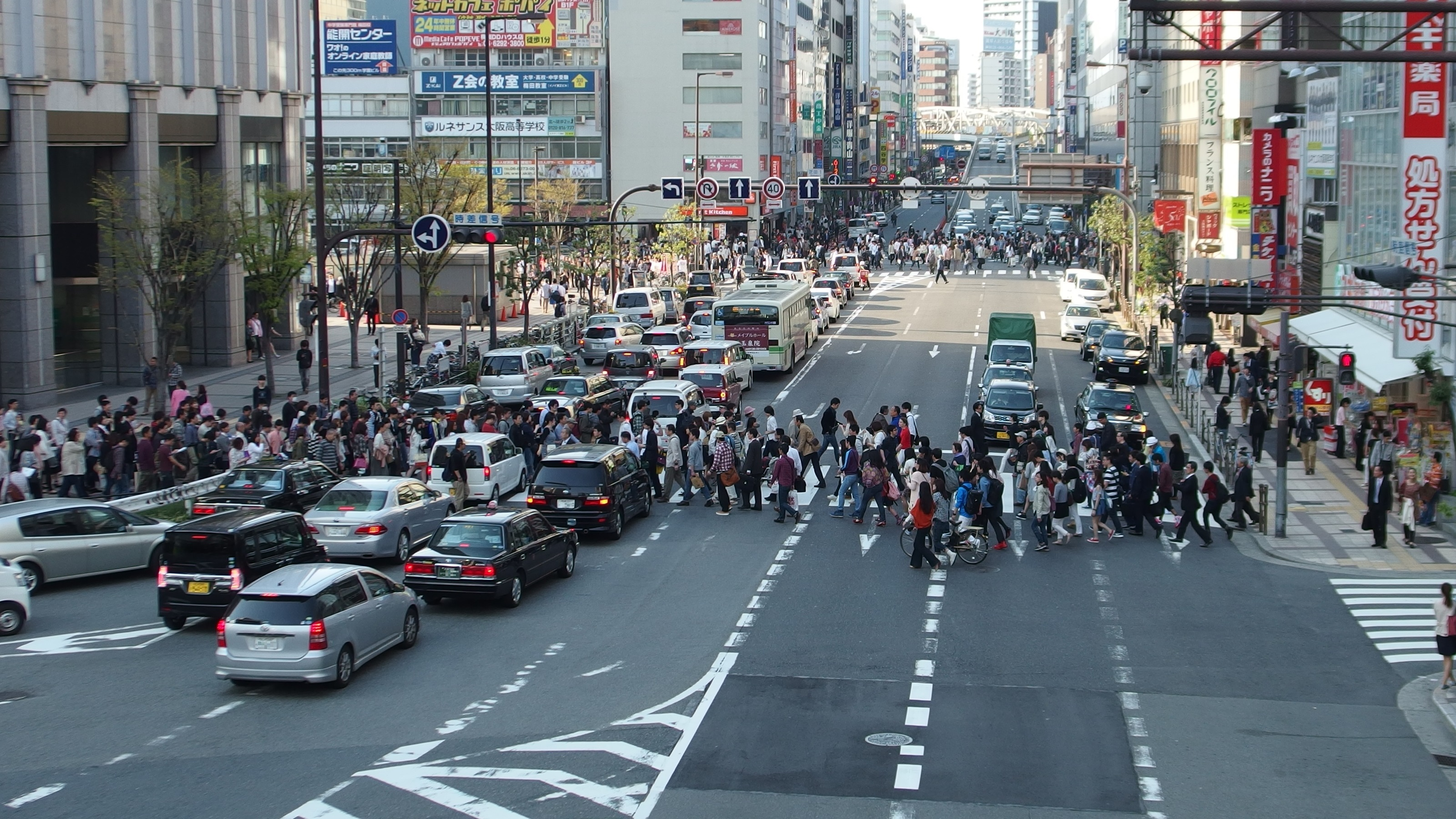 Shibata Intersection in Osaka, Osaka Prefecture, Japan